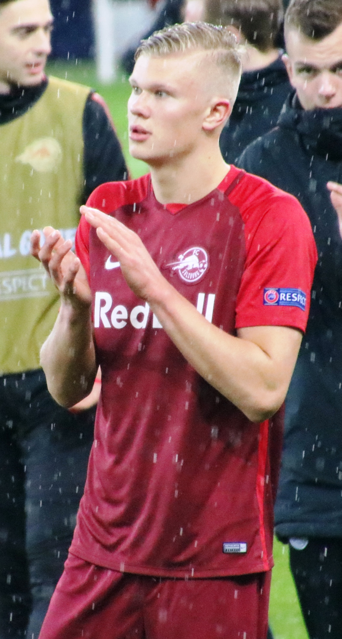 Euroleague round of 16 2nd leg